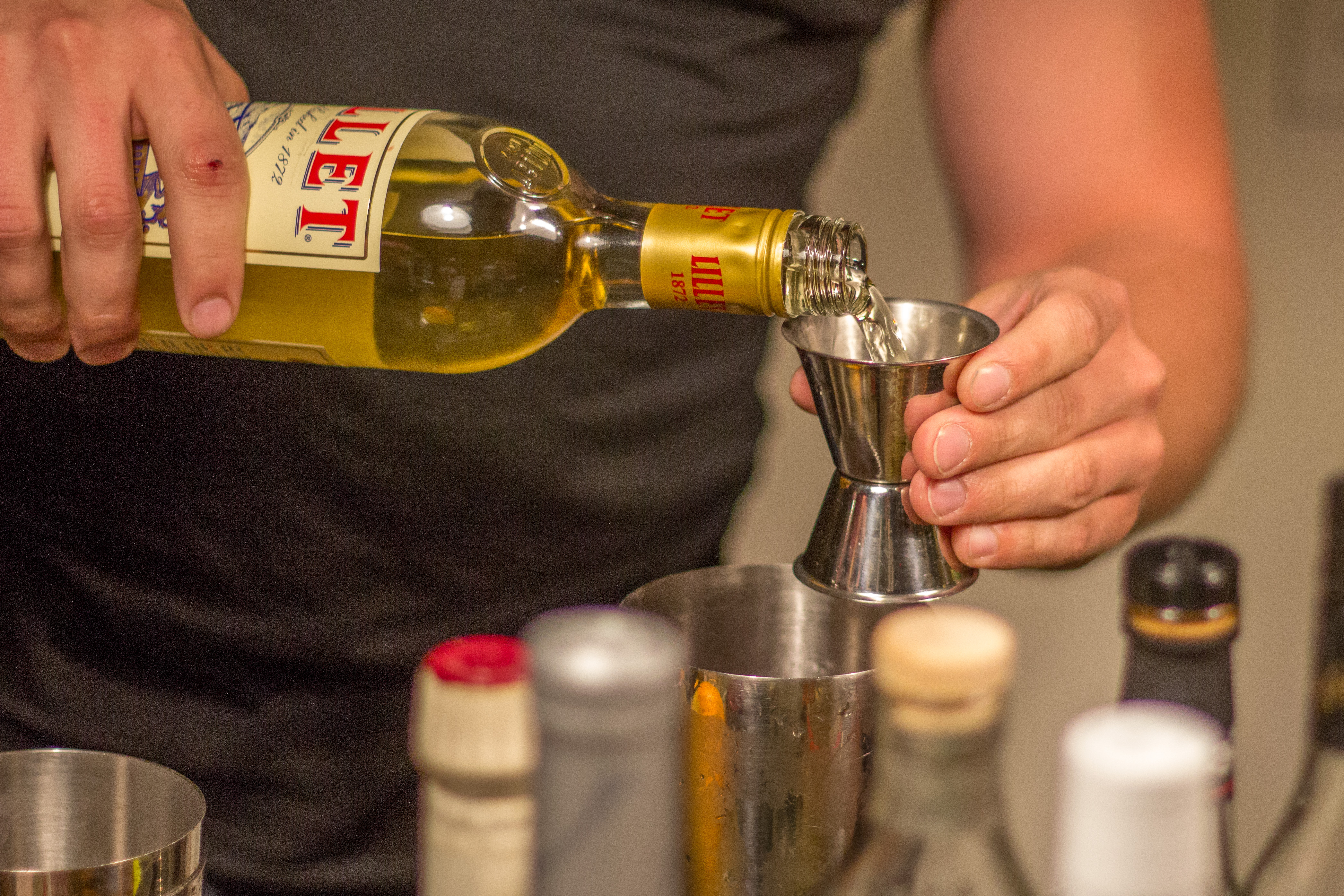 Using a jigger to measure a small quantity of Lillet for a cocktail. Photogaphed during the Cocktails&Dreams-Convention in Hamburg.